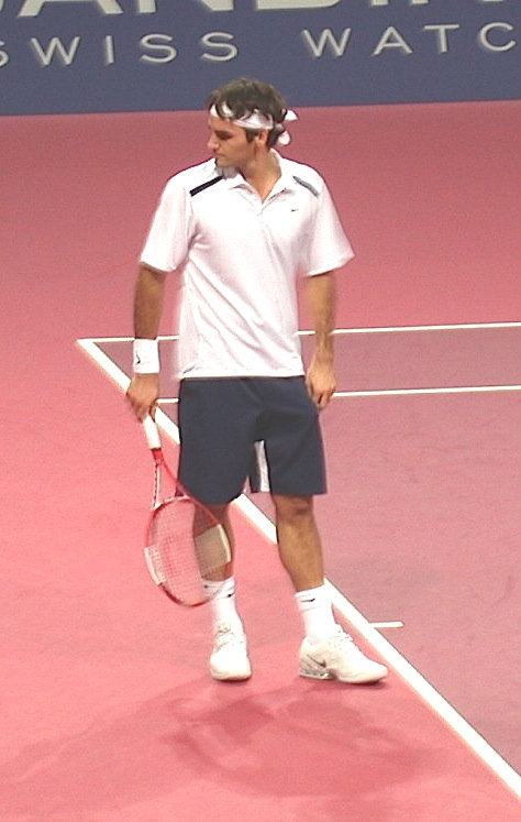 Roger Federer in Basel, Swiss Indoors 2006, semifinal against Paradorn Srichaphan; Crop of Roger Federer Basel 2006.jpg